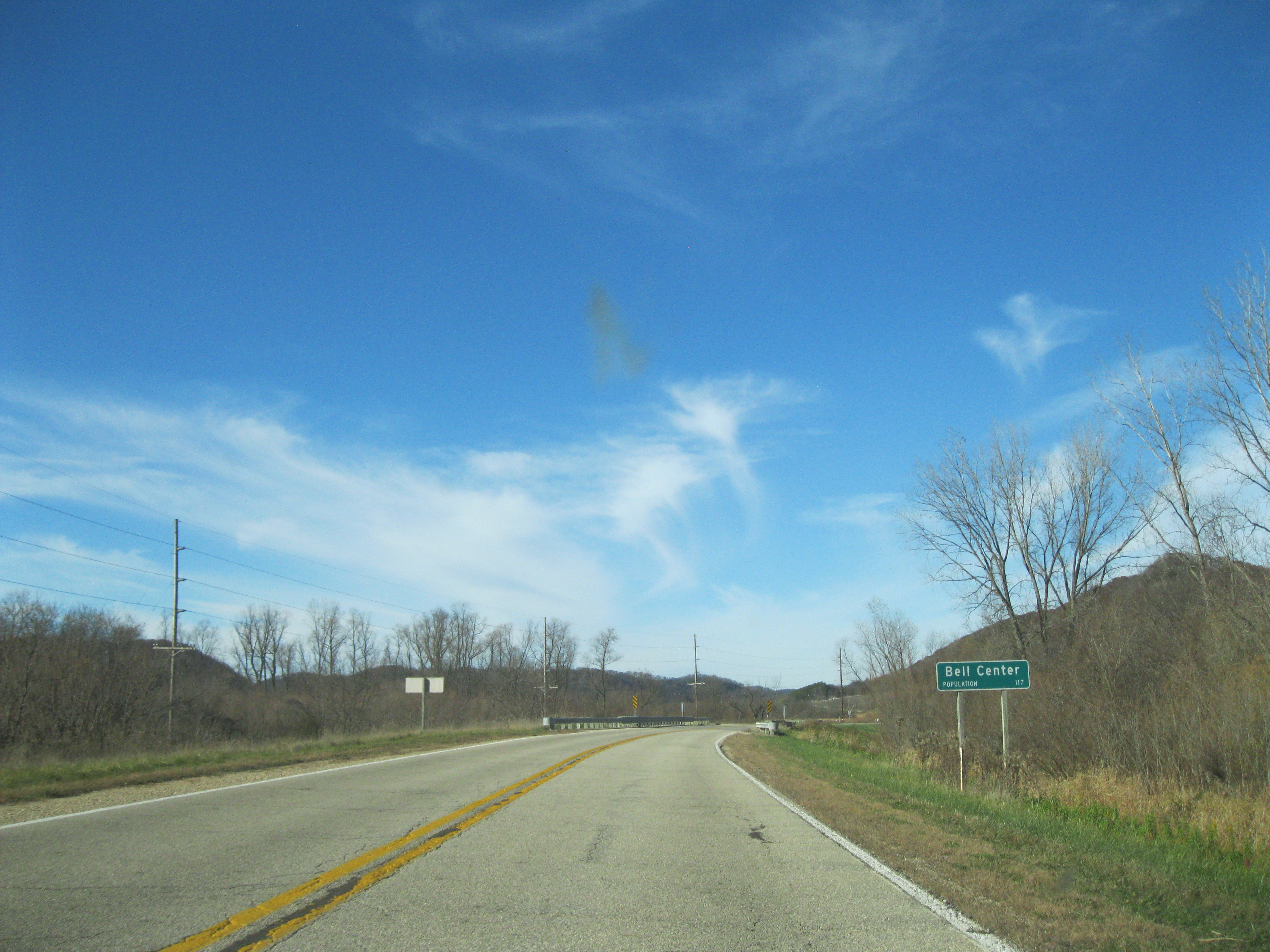 Entering Bell Center, Wisconsin from the south on Wisconsin Highway 131.